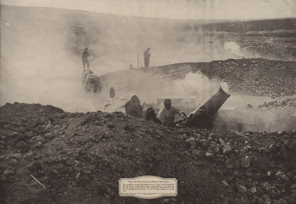 Photograph showing French 220 mm trench mortar immediately after firing, late 1915. The caption reads : ""Then All Was Lost in the Roar of the Guns." This remarkable photograph shows a French trench immediately after the firing of a 220-millimetre mortar in the Argonnes. The smoke has just left the gun muzzle and its cloud, drifting back, encompasses the men who are bringing up fresh shells. You can see them stooping over in the haze." Comment : These appear to be 220 mm de Bange mortars dating from 1880/1881.